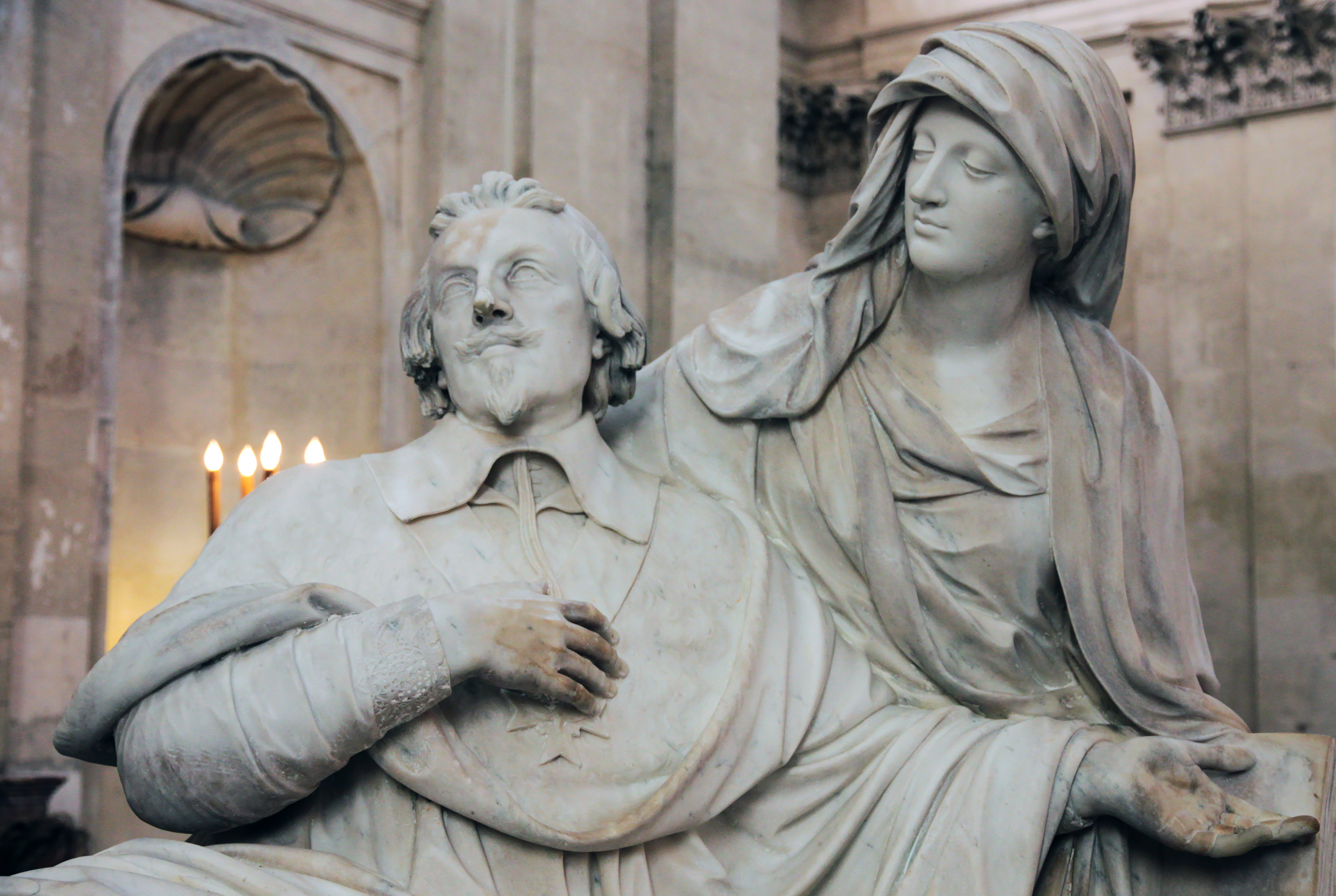 Statues of the tomb of Cardinal Richelieu (1585-1642) in the Chapelle de la Sorbonne, by François Girardon (around 1675-1694), Paris.